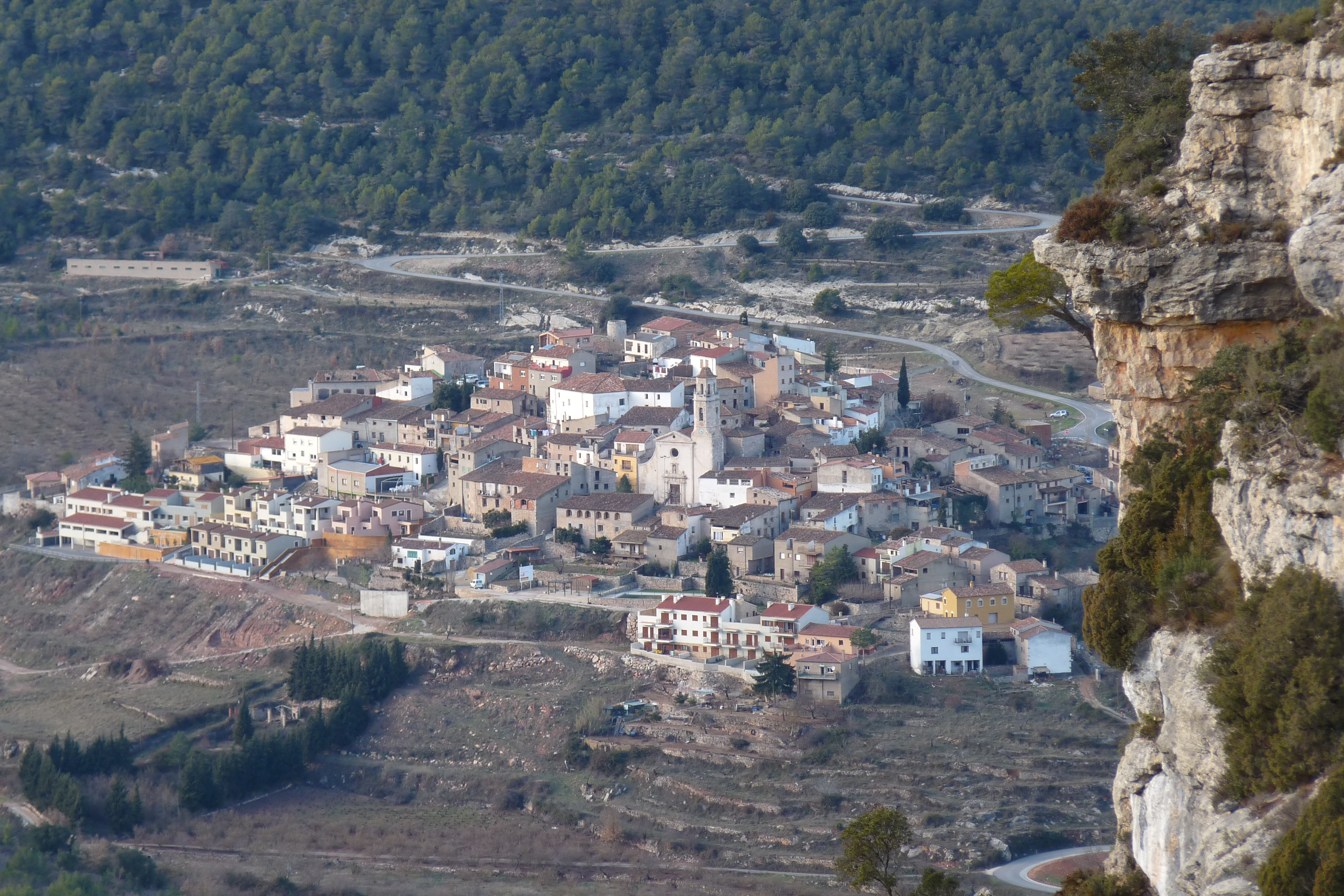 Capafonts from ravine of la Pixera